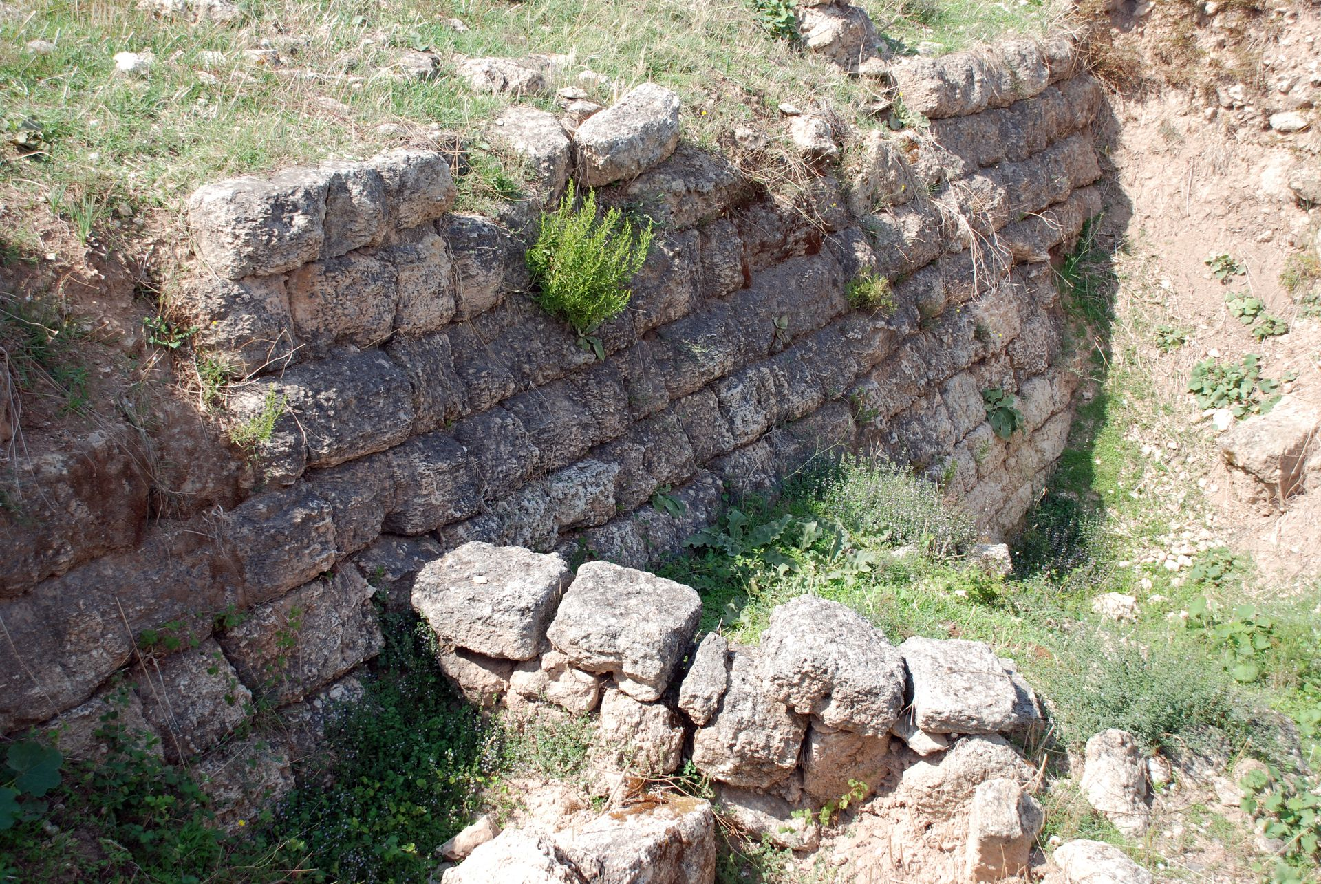 Ras Ibn Hani near Ugarit, Syria. South palace glacis